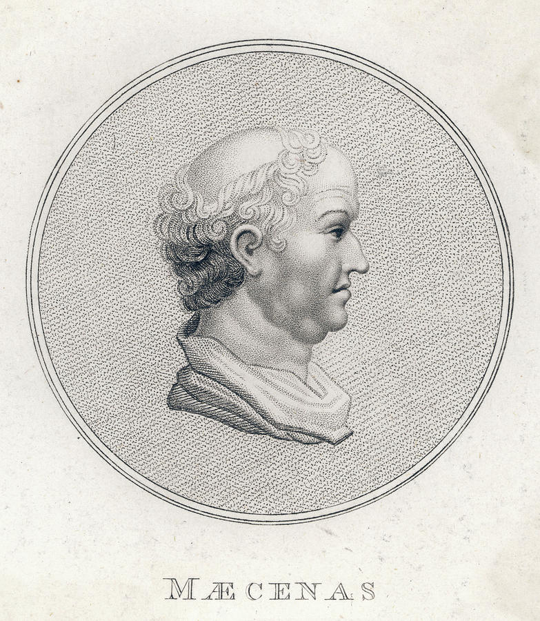 Gaius Cilnius Maecenas Roman Statesman is a drawing by Mary Evans Picture Library